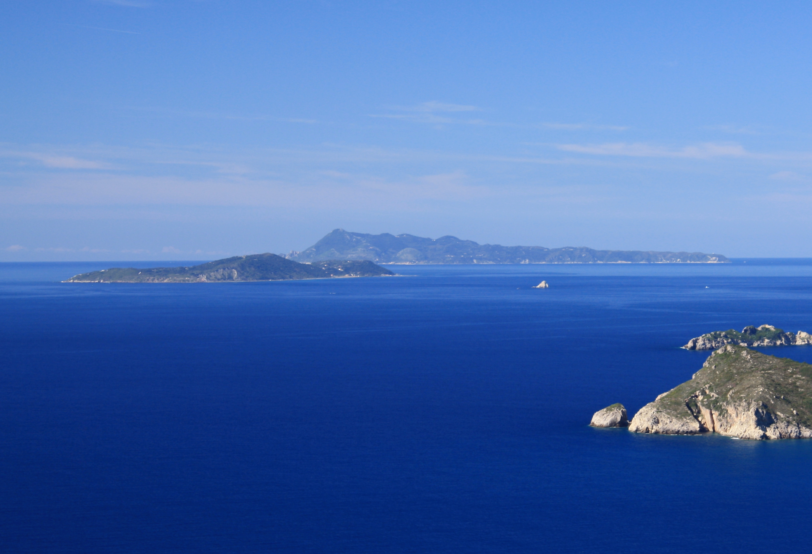 The Ionic Islands Mathraki and Othoni.